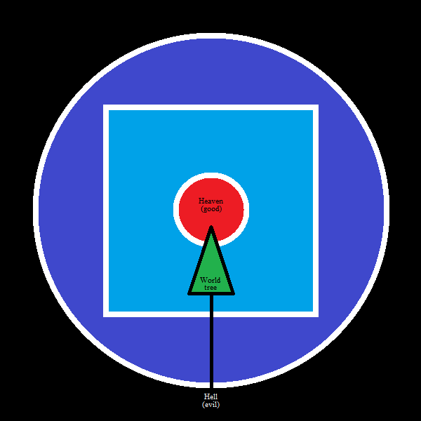 World tree stretching from Heaven to Hell